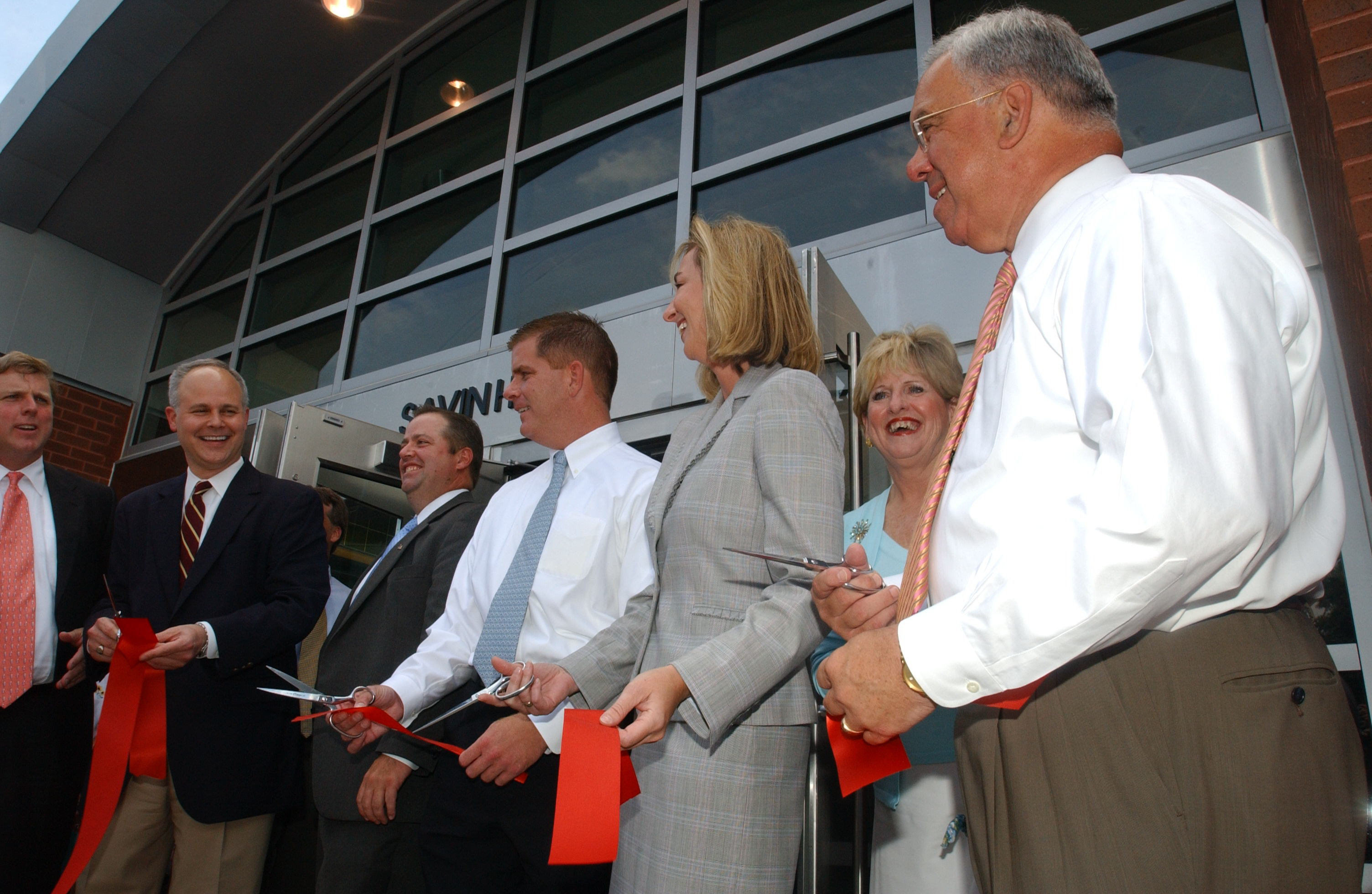 Ribbon cutting ceremony at Savin Hill station in August 2005. Left to right: City Councilman Michael Flaherty, Transportation Secretary Daniel Grabauskas, State Senator Jack Hart, State Representative Martin J. Walsh, Lieutenant Governor Kerry Healey, City Councilor Maureen Feeney, and Mayor Thomas M. Menino.